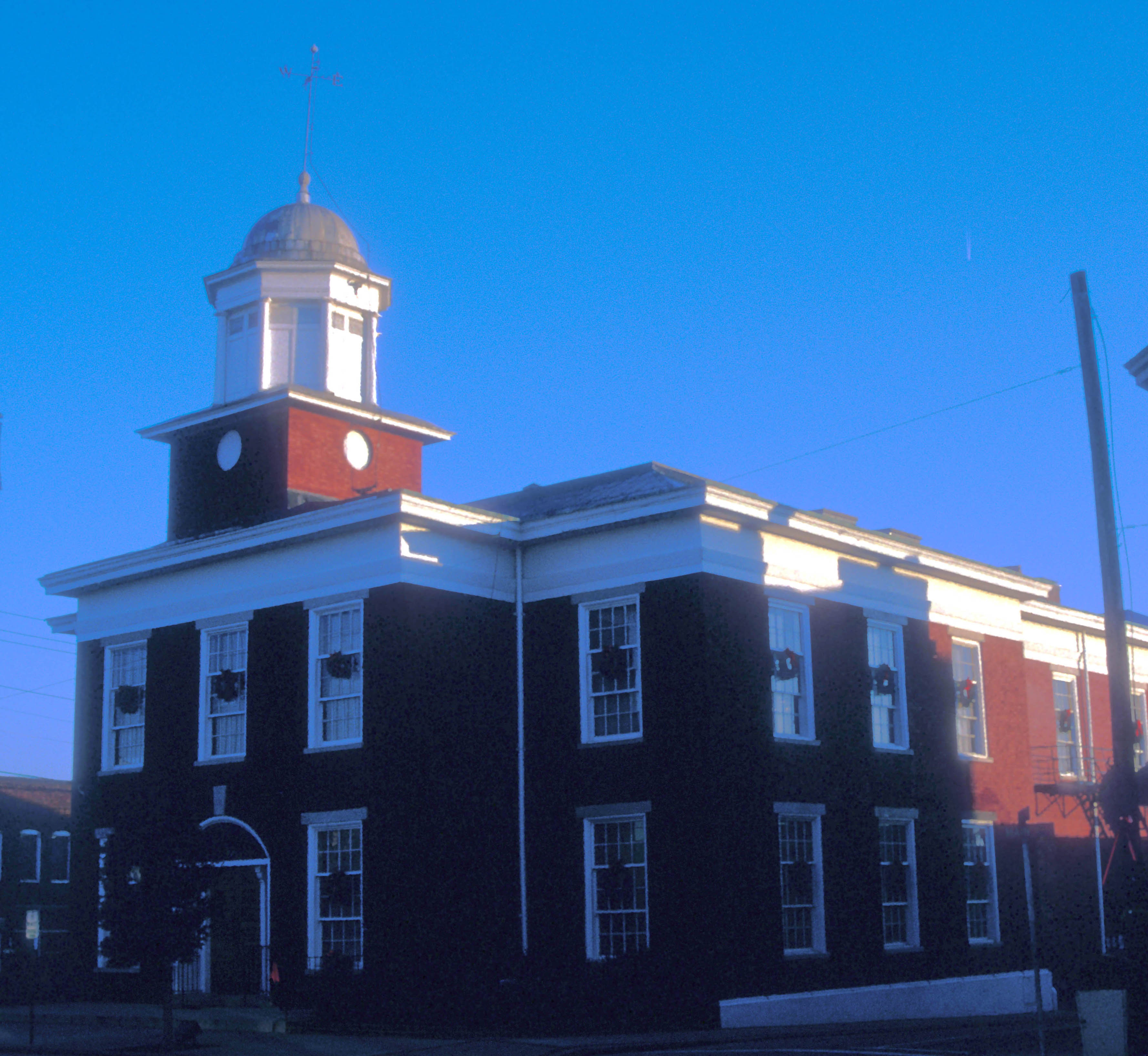 Built in 1838